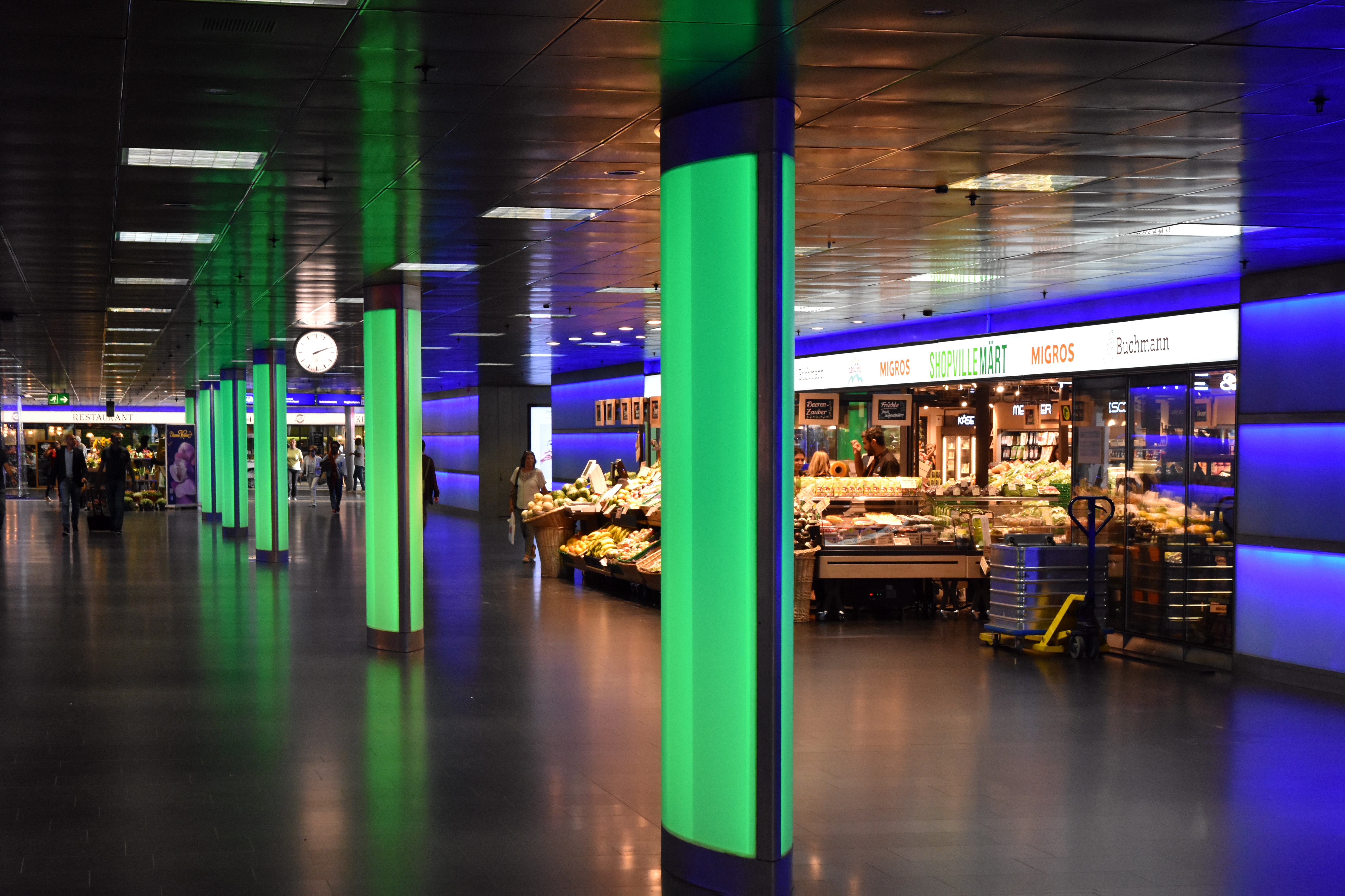 Zürich Hauptbahnhof